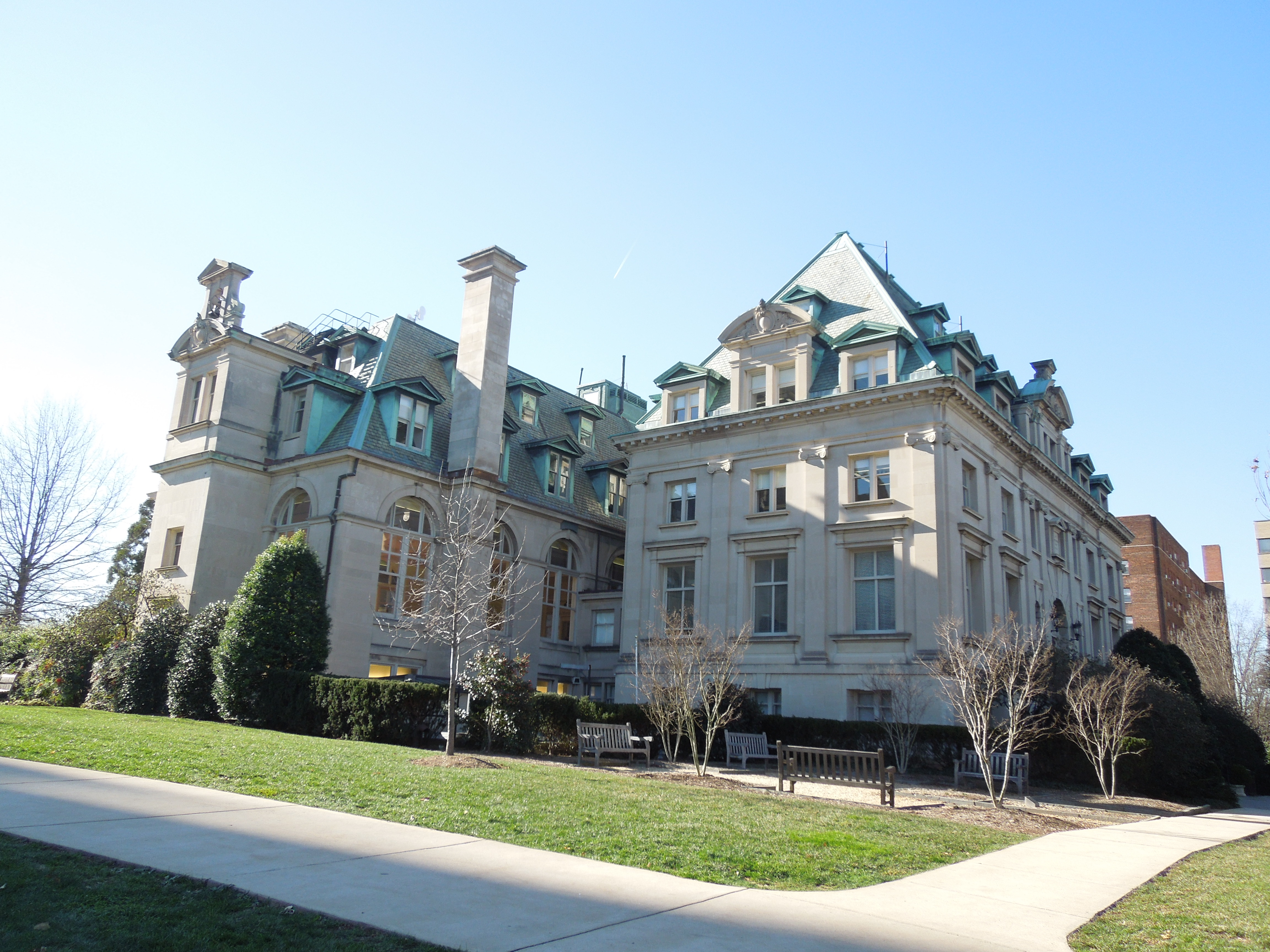 National Cathedral School, Washington, DC: Hearst Hall, seen from northeast